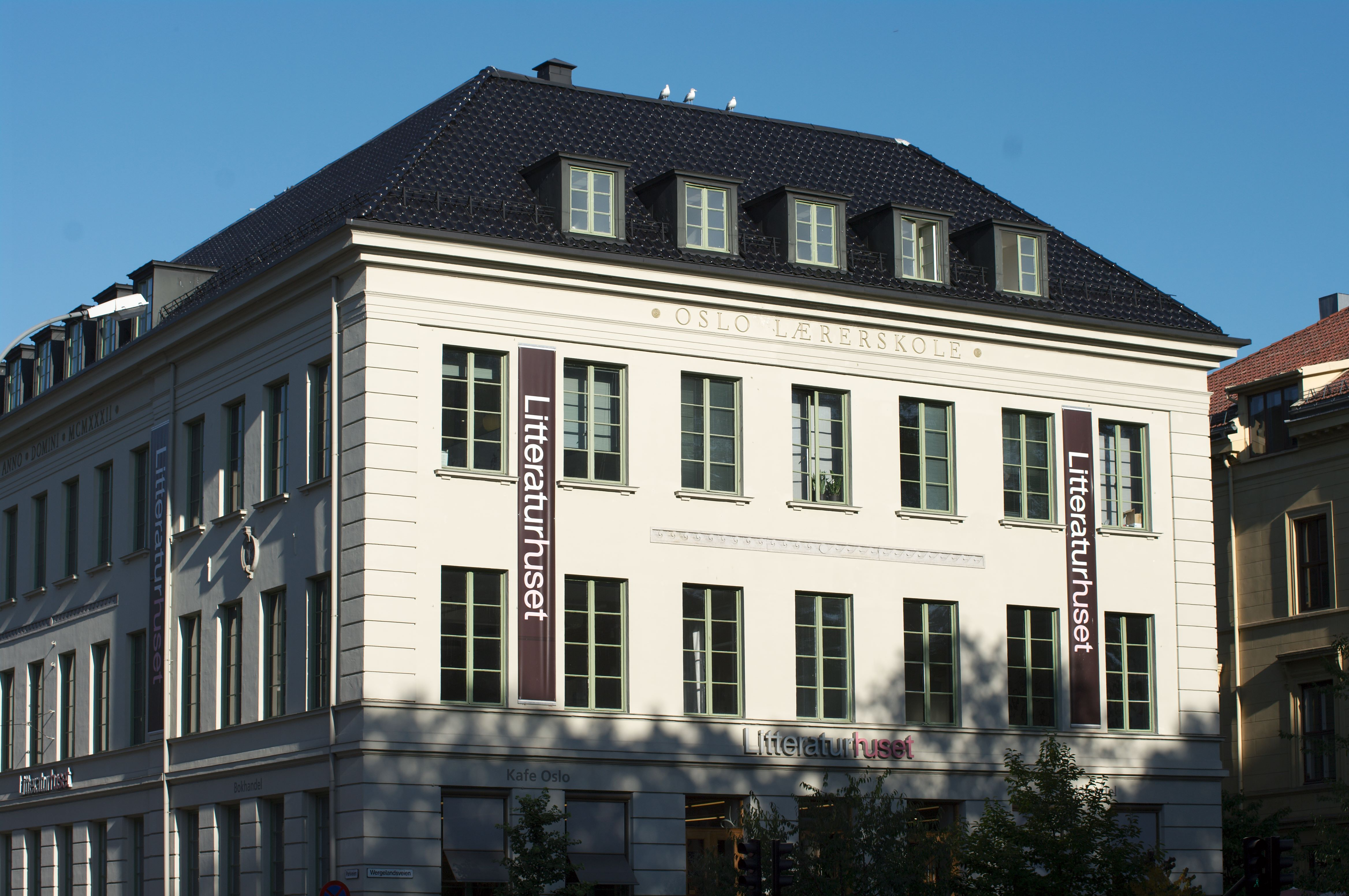 Oslo lærerhøgskole, now Litteraturhuset, in Oslo. .